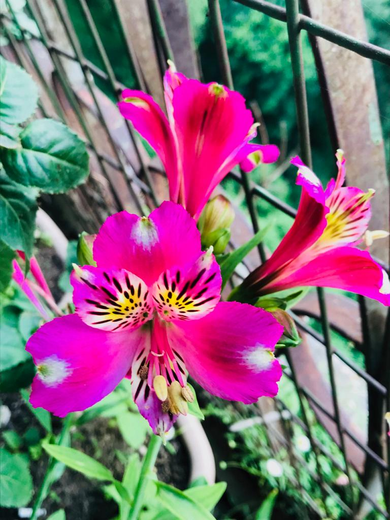 A Peruvian Lily Growing